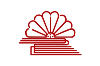 Flag of Shimamoto Osaka